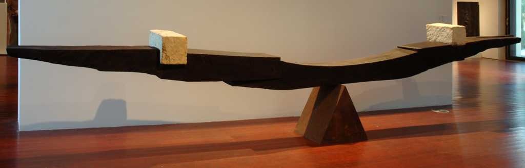 Sculpture by Jan Koblasa, Balance II, wood, stone, steel (1972)